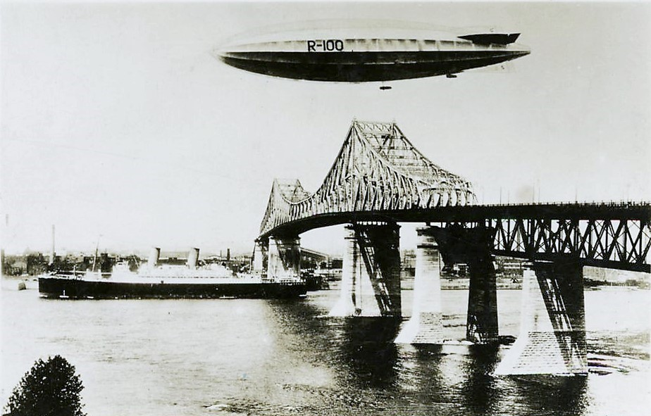 CP Steamship & R 100 passing the Harbour Bridge